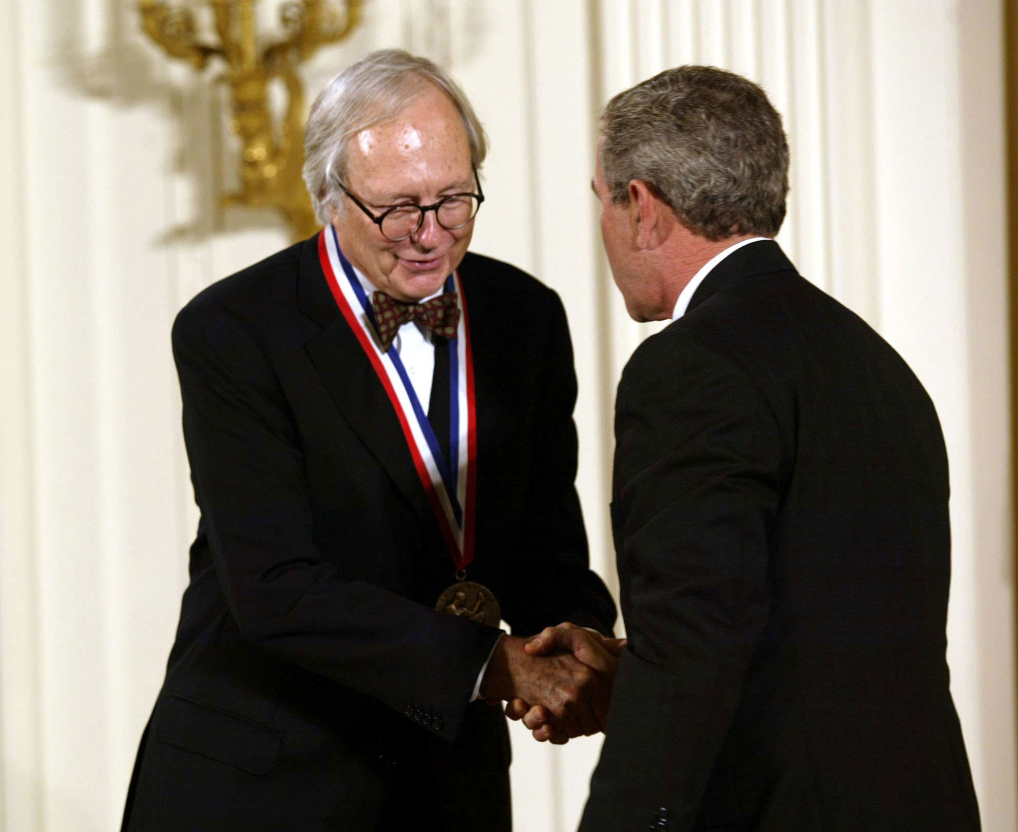 James E. Darnell receiving the 2002 National Medal for Science, from George W. Bush